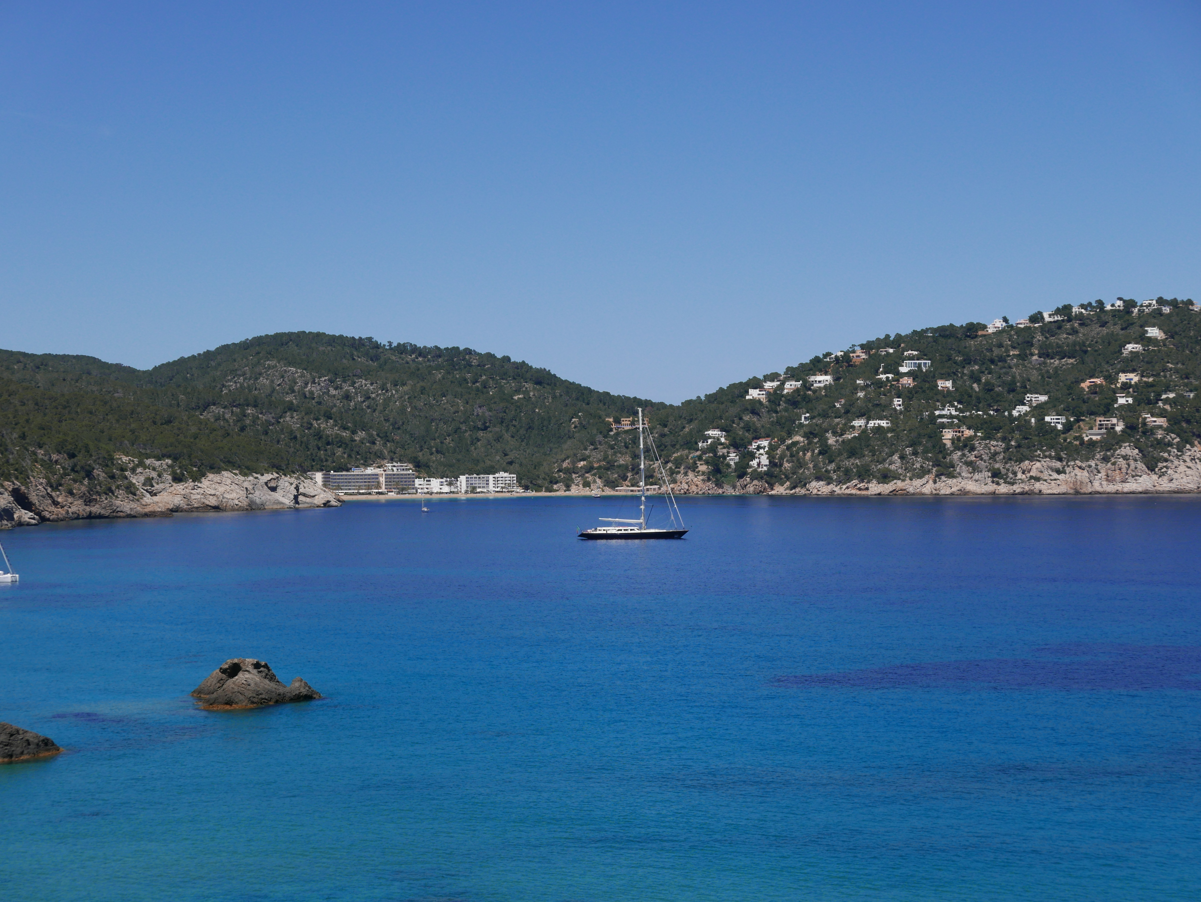 Cala San Vicente, Ibiza - view from the coast